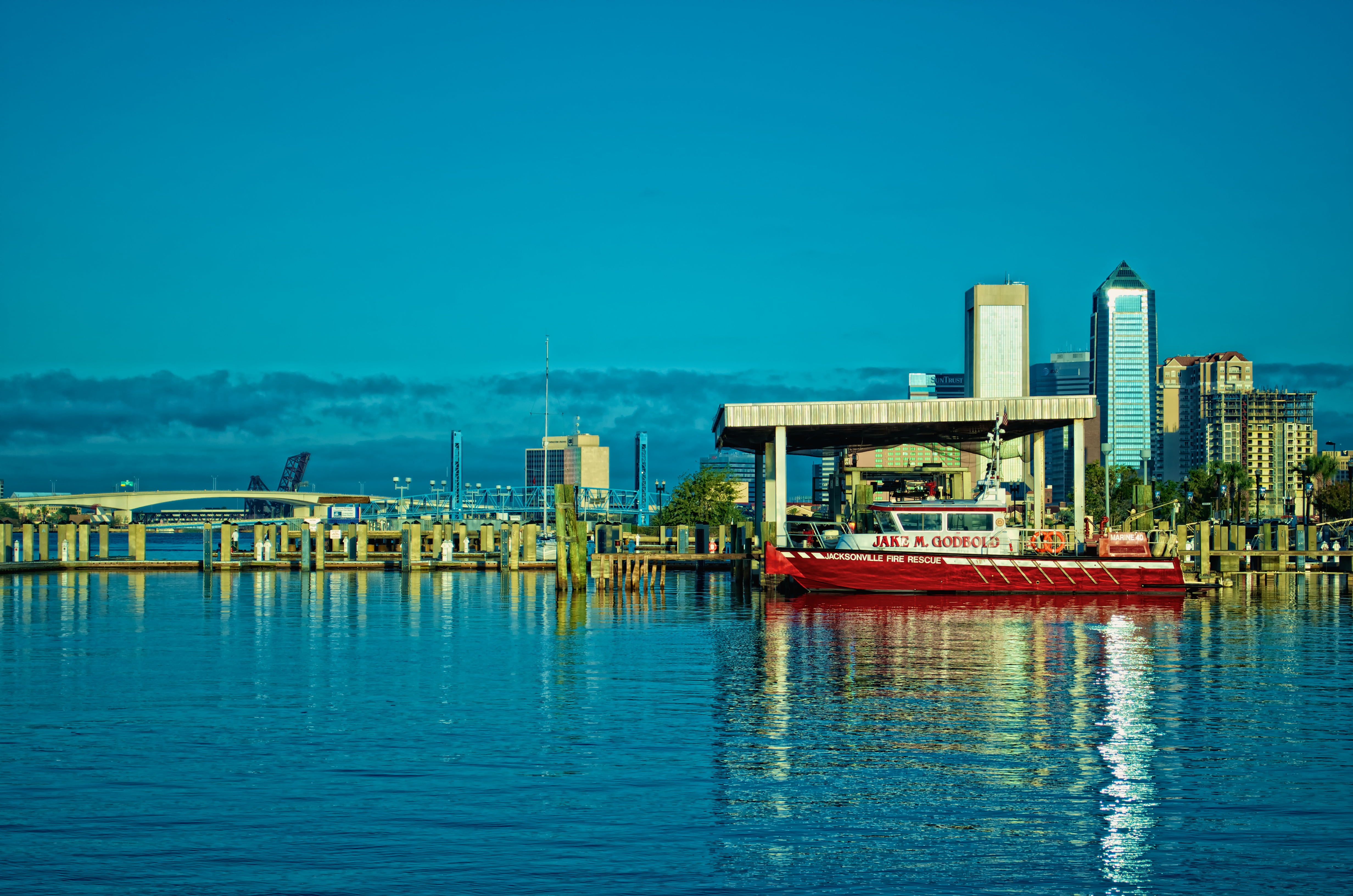 Jacksonville Fire Rescue Marine 40 on the St. Johns River. Taken from Metropolitan Park prior to the First Coast Heart Walk.